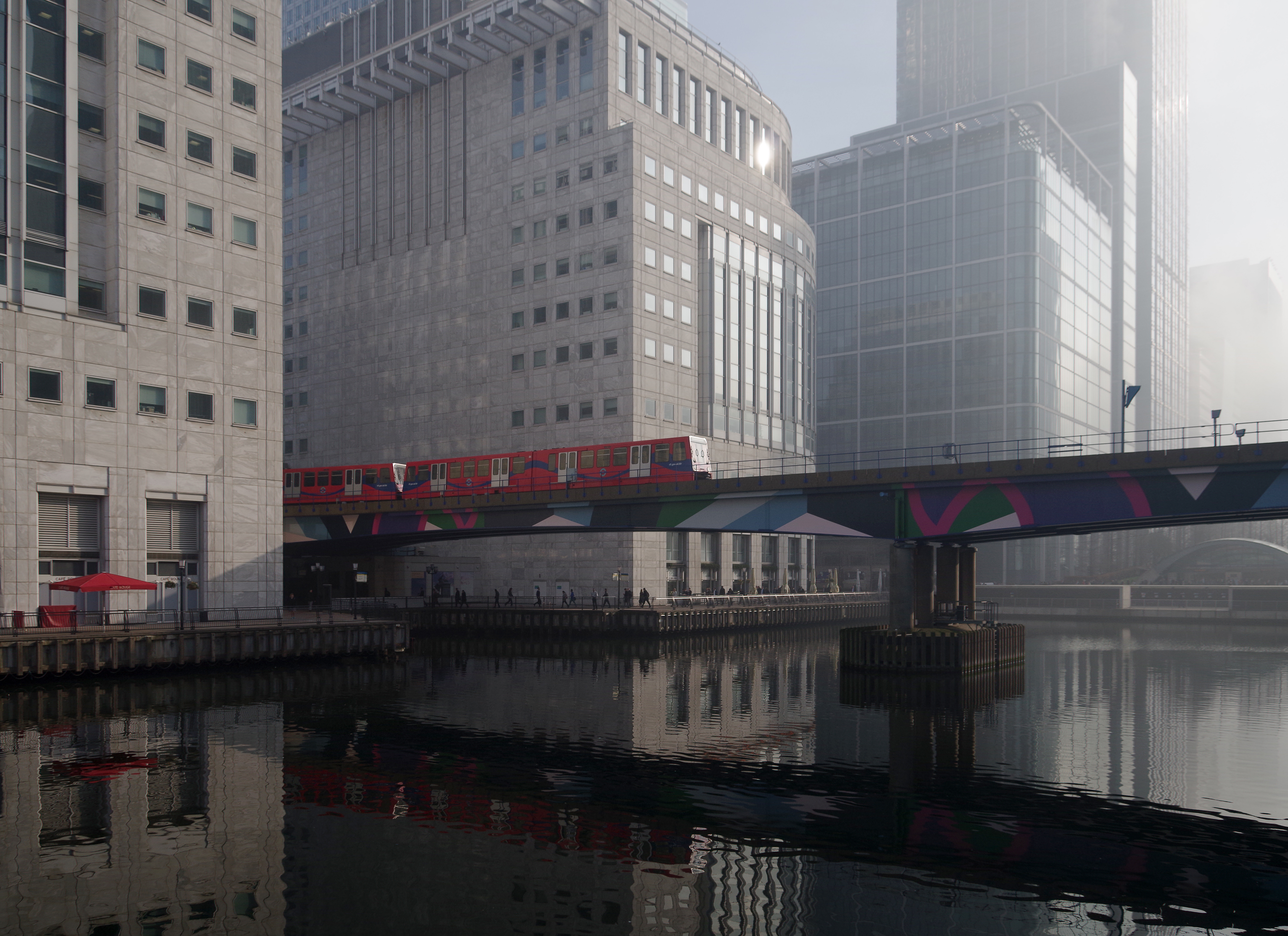 A Docklands Light Railway train crosses the Canary Wharf bridge, through the lingering mist.